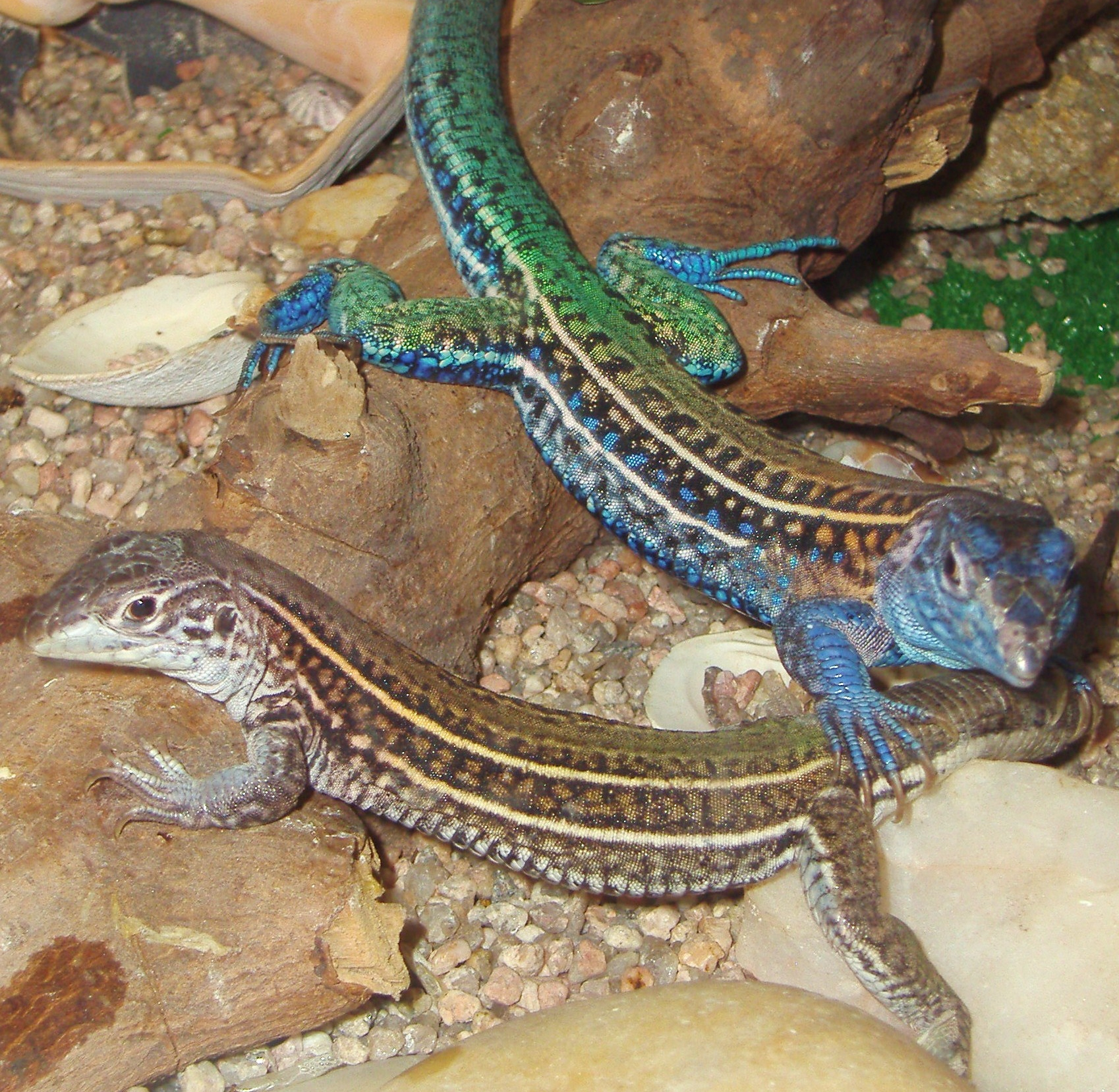 Ejemplares de teius teyou